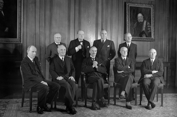 November 1939: Standing, Winston Churchill, First Lord of the Admiralty (1874 - 1965), Leslie Hore-Belisha , Secretary of State for War, (1893 - 1957) and Lord Hankey (without portfolio) (1877 - 1963). Front Row, Lord Halifax, Foreign Secretary (1881 - 1959), Sir John Simon, Chancellor of the Exchequer (1873 - 1954), Neville Chamberlain, Prime Minister (1869 - 1940, Sir Samuel Hoare, Home Secretary (1880 - 1959) and Lord Chakfield, Co-ordination of Defence. (Photo by Walter Bellamy/London Express/Getty Images)